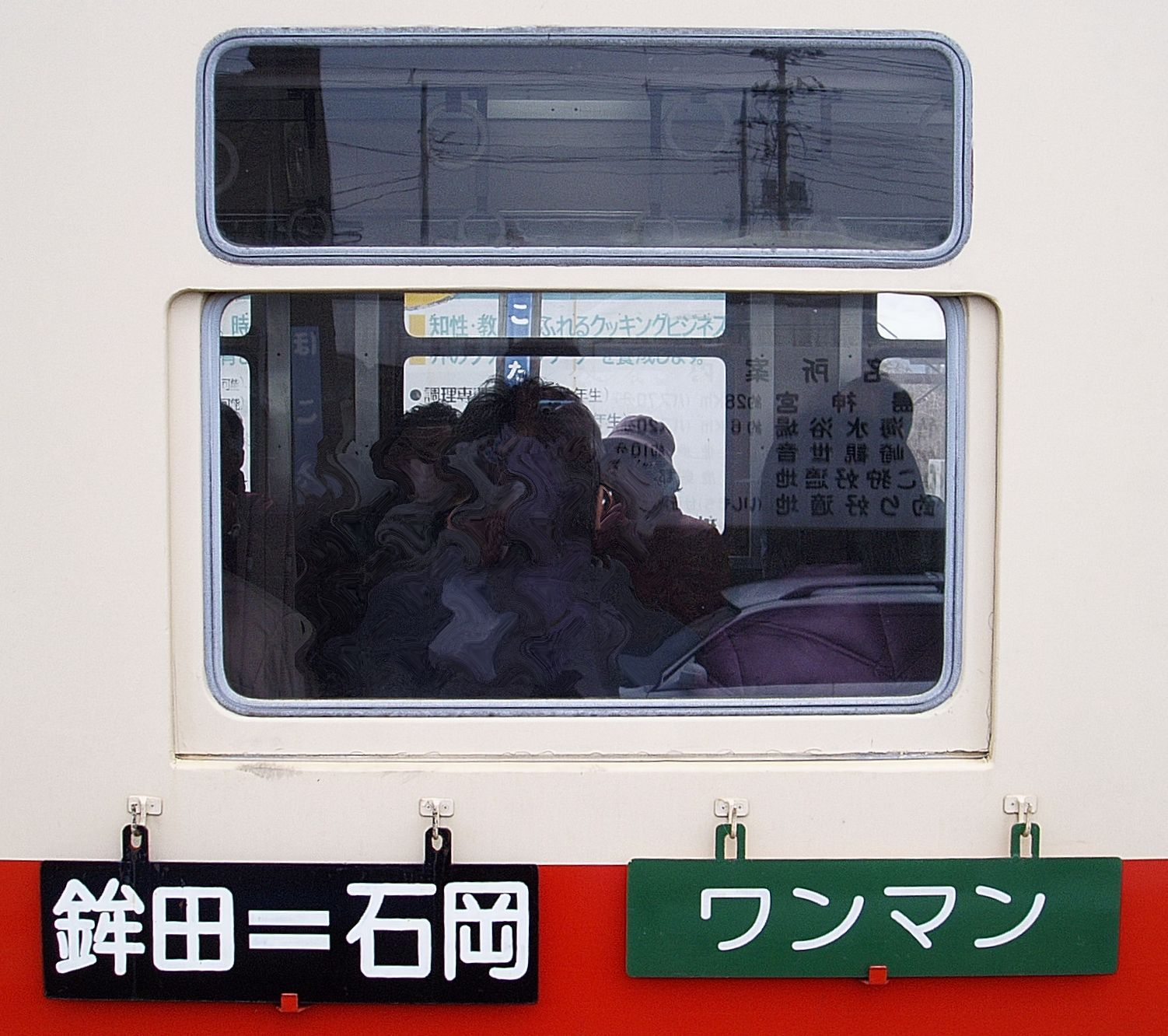 Standy Window